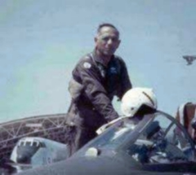 Late General Mihiel Gilormini, then Commander of the Puerto Rican National Guard (which is under the jurisdiction of the United States Air Force).